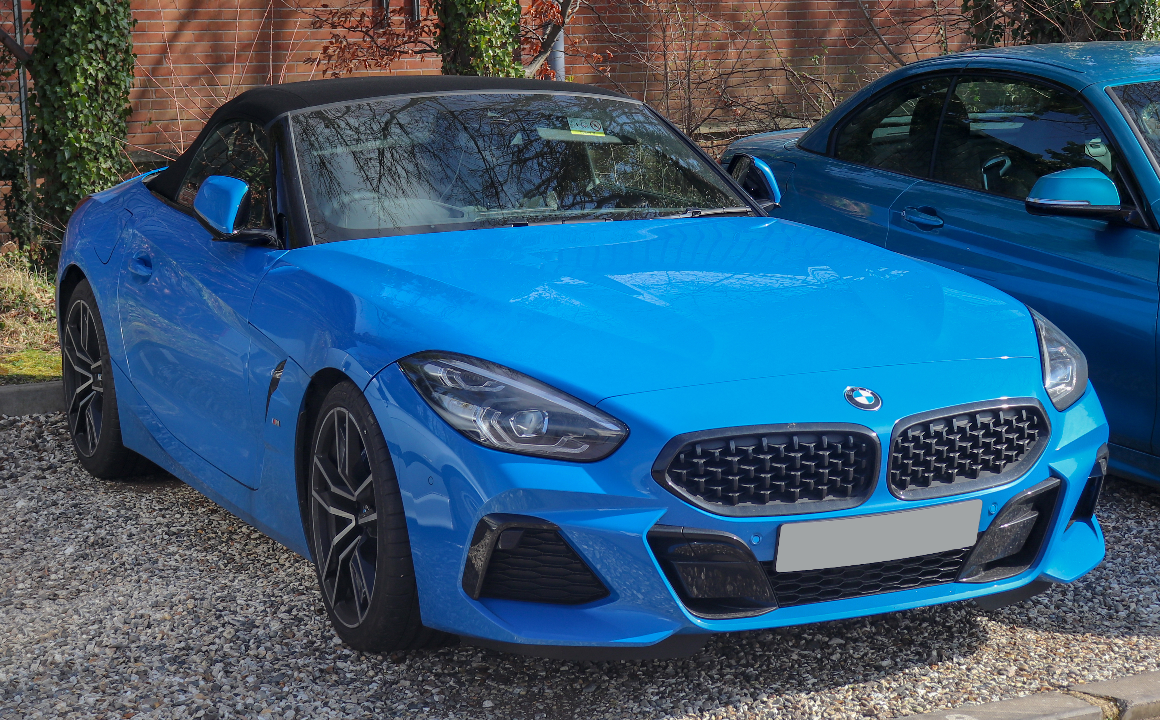 2019 BMW Z4 sDrive20i M Sport Automatic 2.0 Taken in Leamington Spa